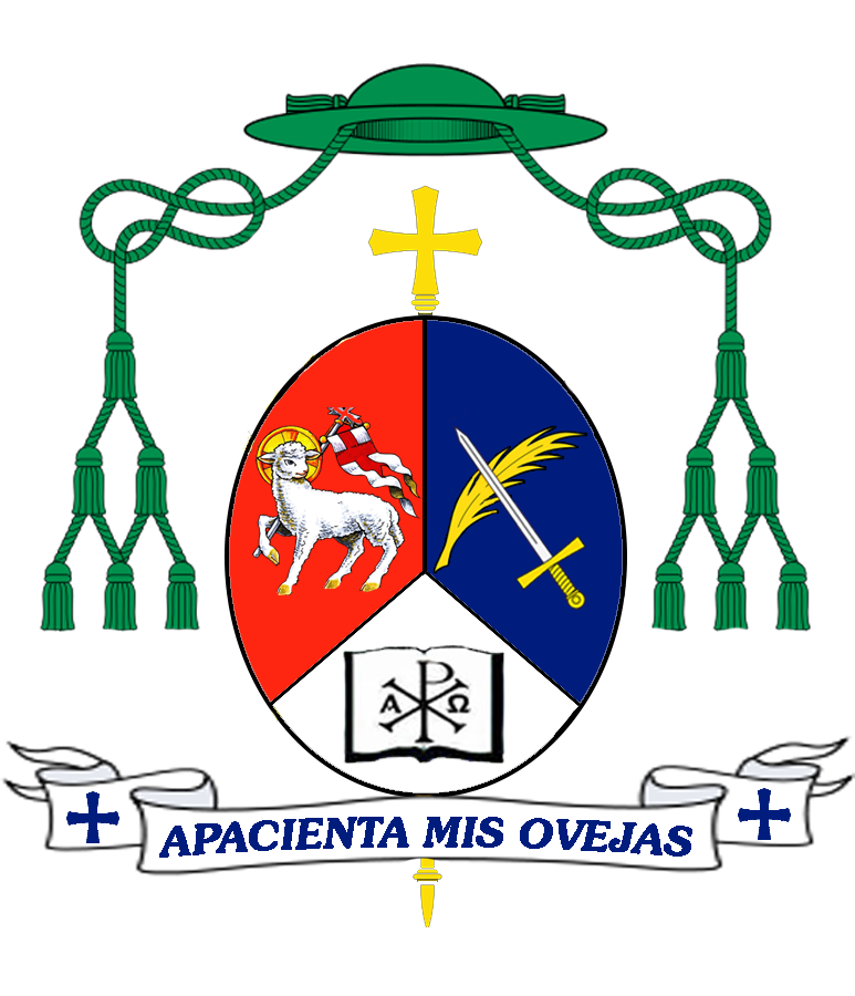 escudo Mons. Juan Gabriel Díaz Ruiz